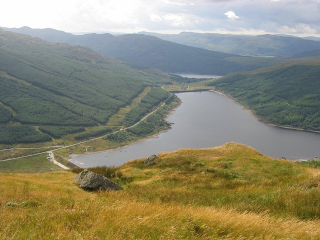 Loch Tarsan. Distant view from NS091845 showing the two dams on this artificial loch. It's on the watershed so two dams are required. It serves a power station at the head of Loch Striven.